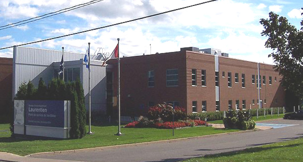 Laurentien borough service point (former Val-Bélair city hall), Val-Bélair, Laurentien borough, Quebec City (Quebec, Canada), september 8th, 2007.